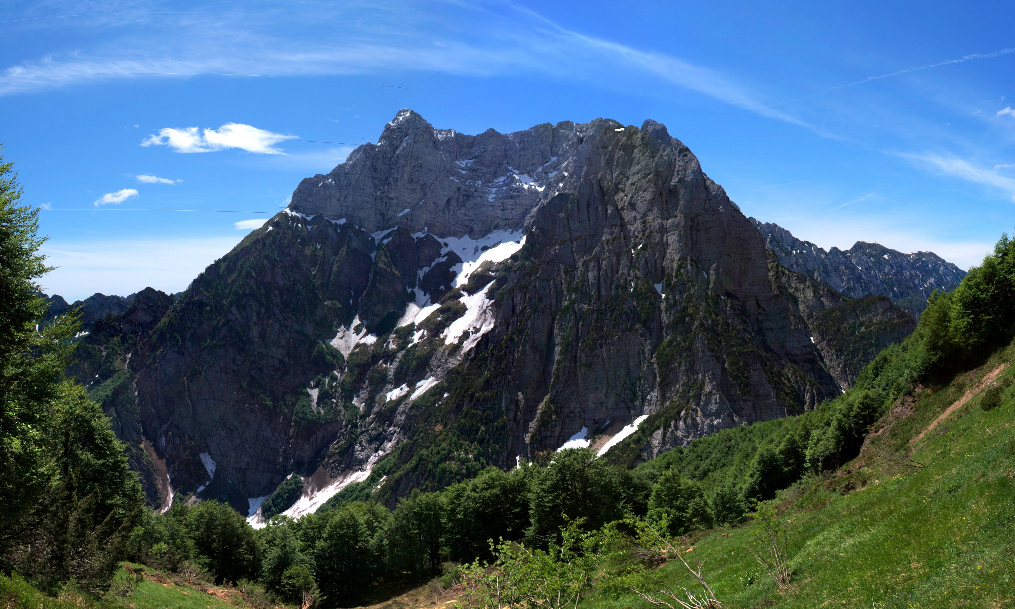 Col Nudo